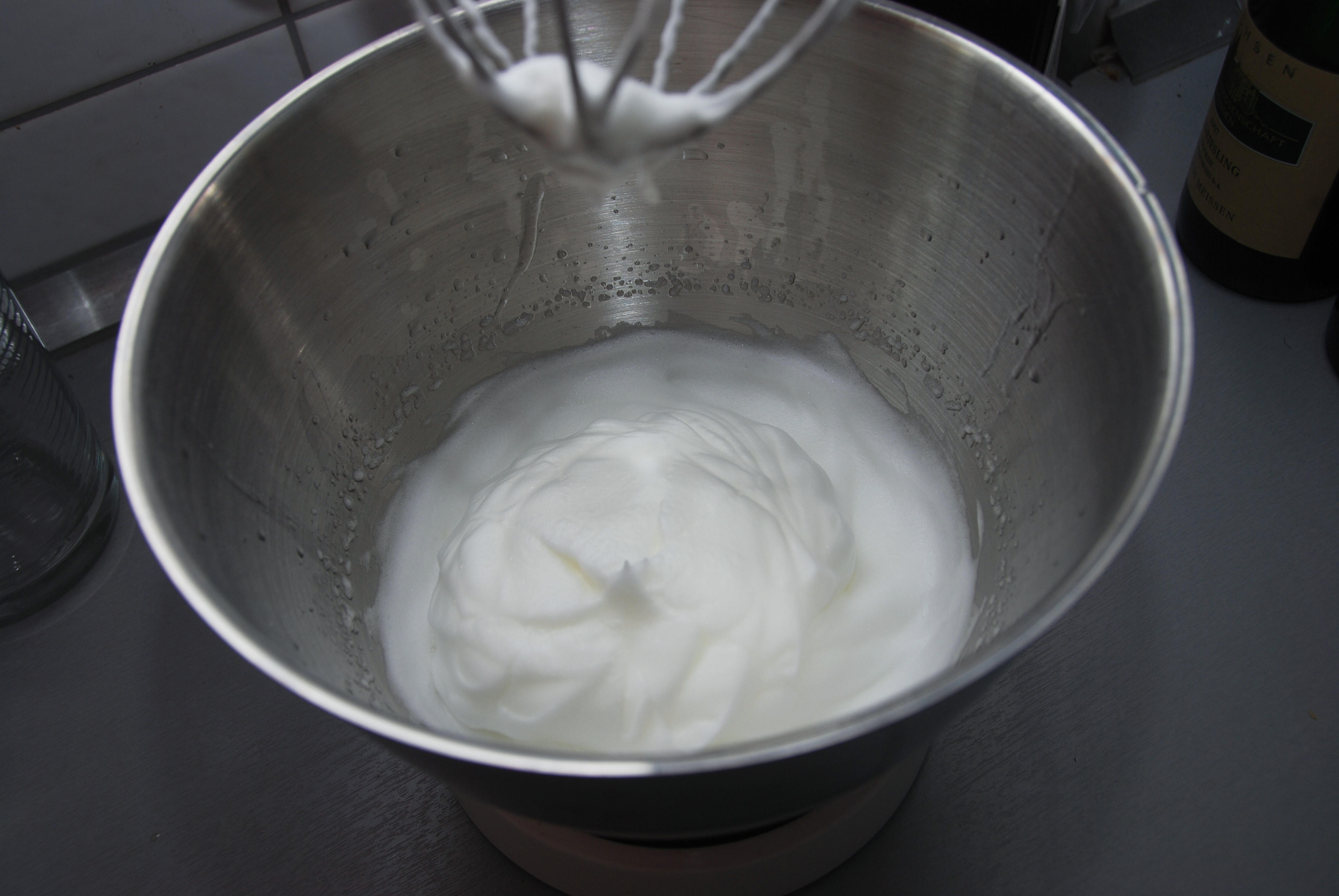 Source: D. Albert (Benutzer:User:Dial, own work) Description: beaten white of egg. Autor: D. Albert Date: Mai 2008